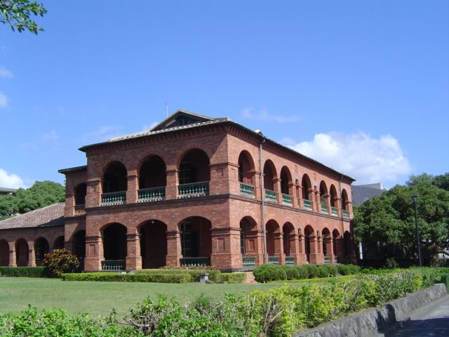 The consular residence built by the British. The interior has been carefully restored by the Taiwanese.